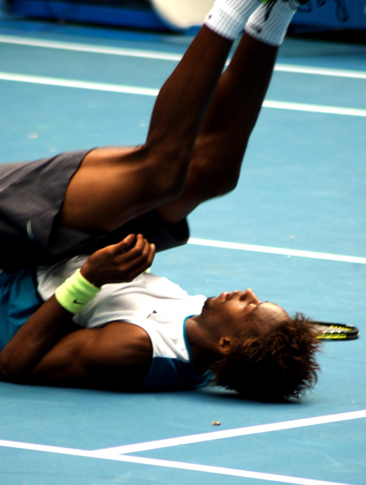 Gaël Monfils at 2009 Australian Open, Melbourne, Australia.